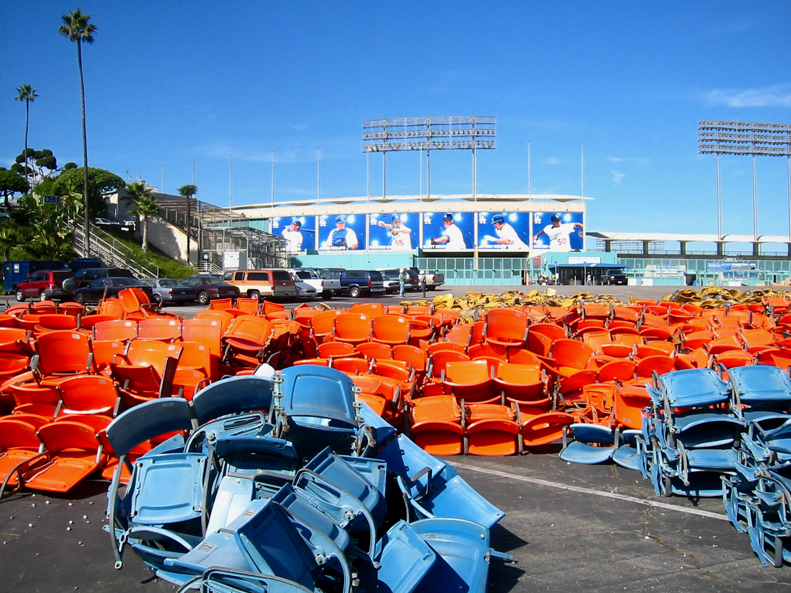 Dodger Stadium renovation - Photo by Jeff Malmberg - free public domain. 05:06, 25 February 2006 . . Jeffmalmberg . . 1600 x 1200 (1,661,203 bytes)